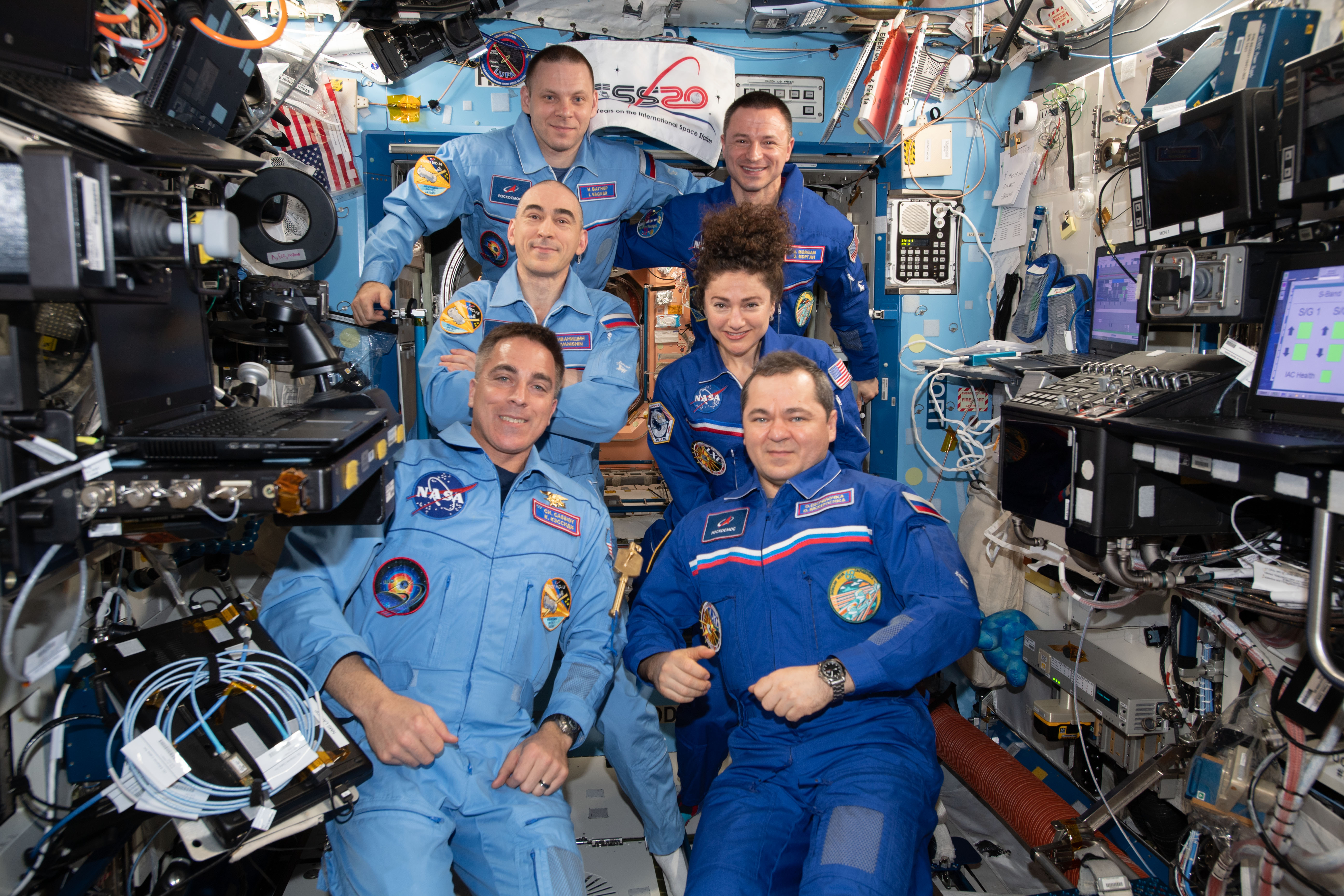 The Expedition 62 and 63 crews pose together moments after Roscosmos cosmonaut Oleg Skripochka (bottom right) handed over station command to NASA astronaut Chris Cassidy (bottom left). On the right side, are Expedition 62 crewmembers Skripochka with NASA astronauts Jessica Meir and Andrew Morgan. On the left, are Expedition 63 crewmembers Cassidy with Roscosmos cosmonauts Anatoly Ivanishin and Ivan Vagner.